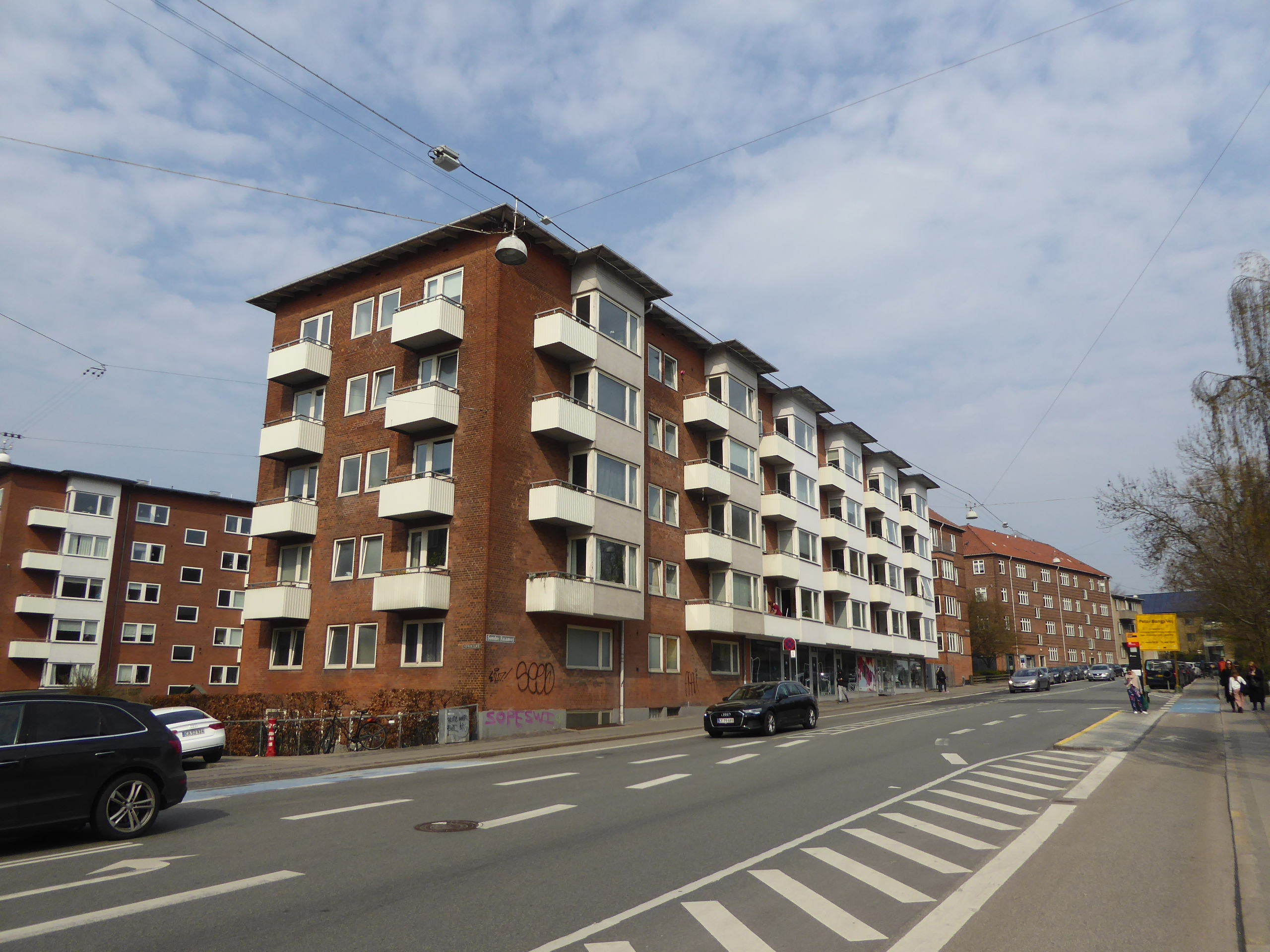 Apartment building at Søndre Fasanvej in Frederiksberg in Copenhagen.